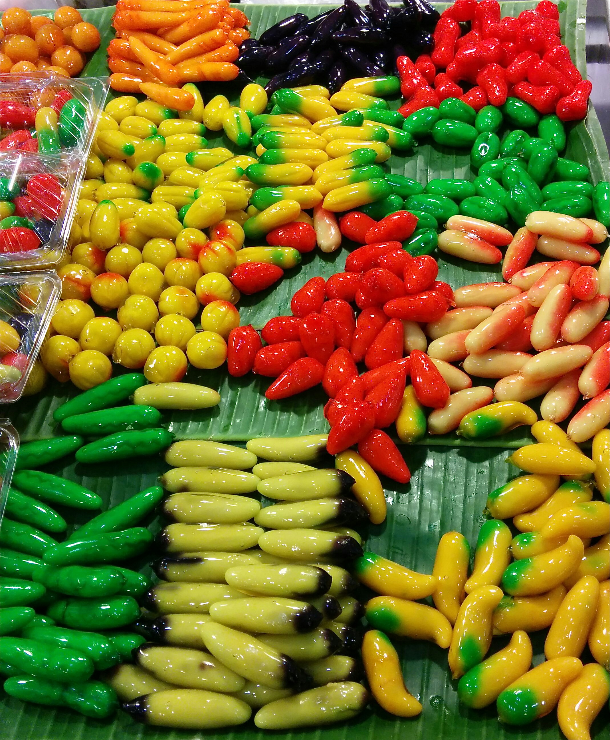 miniature fruit/vegetable-shaped candy (made with mung bean paste) - Thai dessert